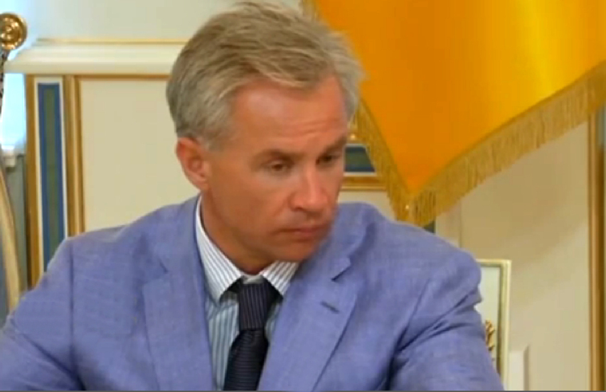 Yuriy Anatolіyovich Kosyuk, a Ukrainian businessman, owner and CEO of Mironivsky Hliboproduct (MKhP). First Deputy Head of Presidential Administration of Ukraine (responsible for the coordination and improve handling power block). Hero of Ukraine (2008).